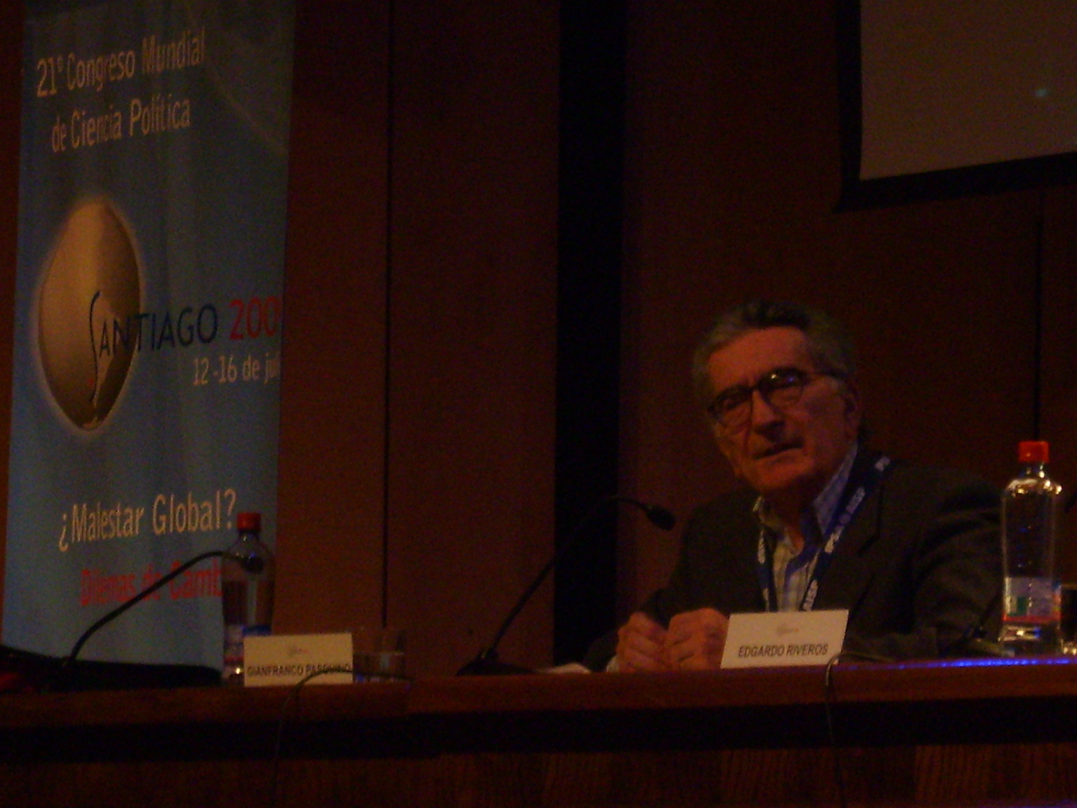 Gianfranco Pasquino at the 21st World Political Science Congress, held in Santiago de Chile